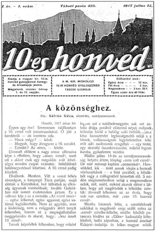 Title page of "10-es honved" newspaper, 1917